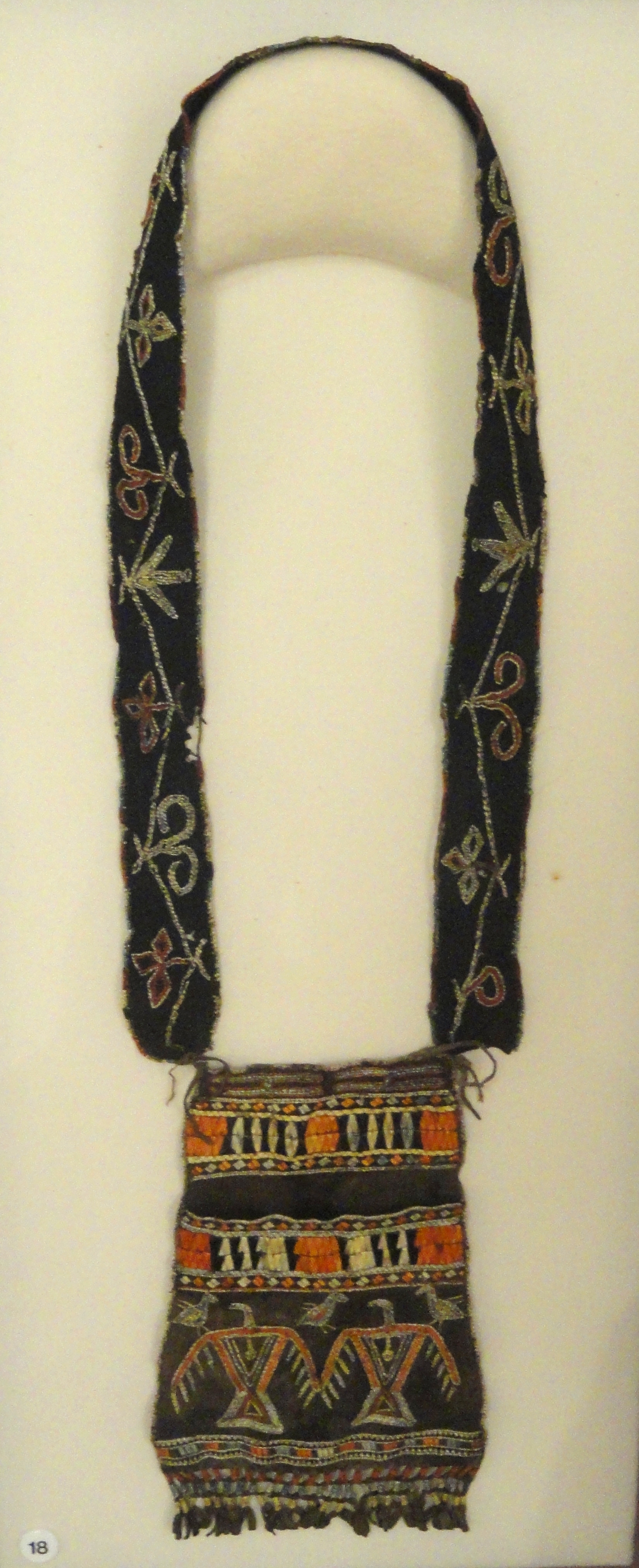 Pouch, southeastern Ojibwa, with porcupine quills, from Boston Museum Collection. Exhibit from the Native American Collection, Peabody Museum, Harvard University, Cambridge, Massachusetts, USA. Photography was permitted without restriction; exhibit is old enough so that it is in the public domain.